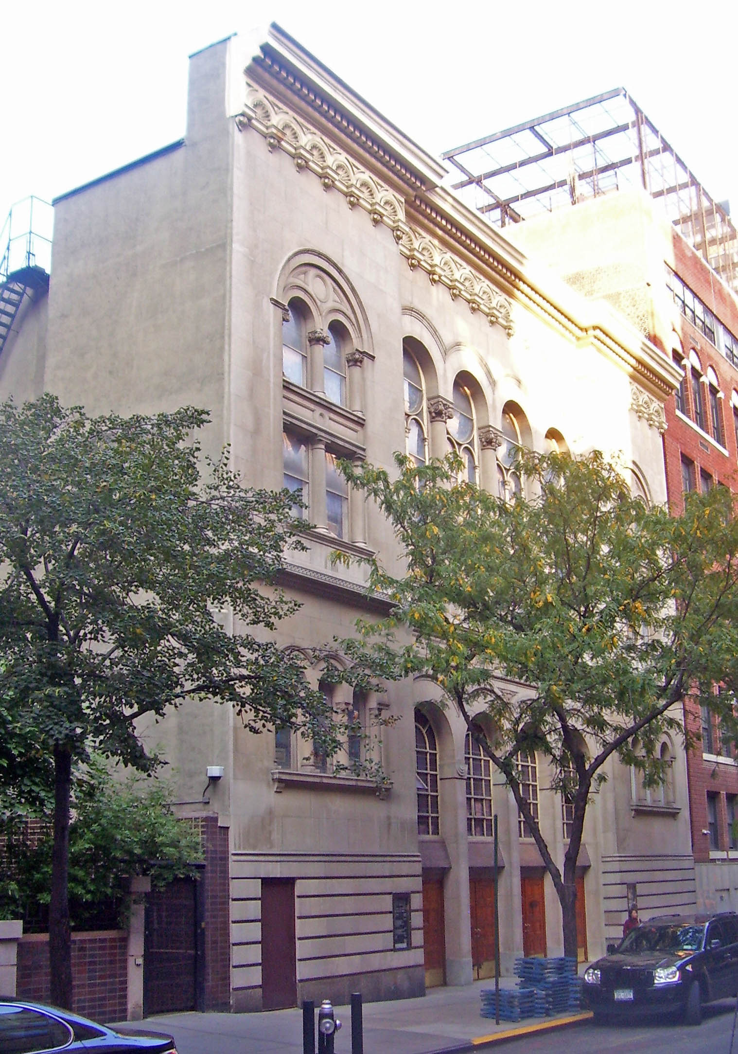 This photo is of Wikis Take Manhattan goal code B4, Congregation Kehilath Jeshurun. edited for color and cropped